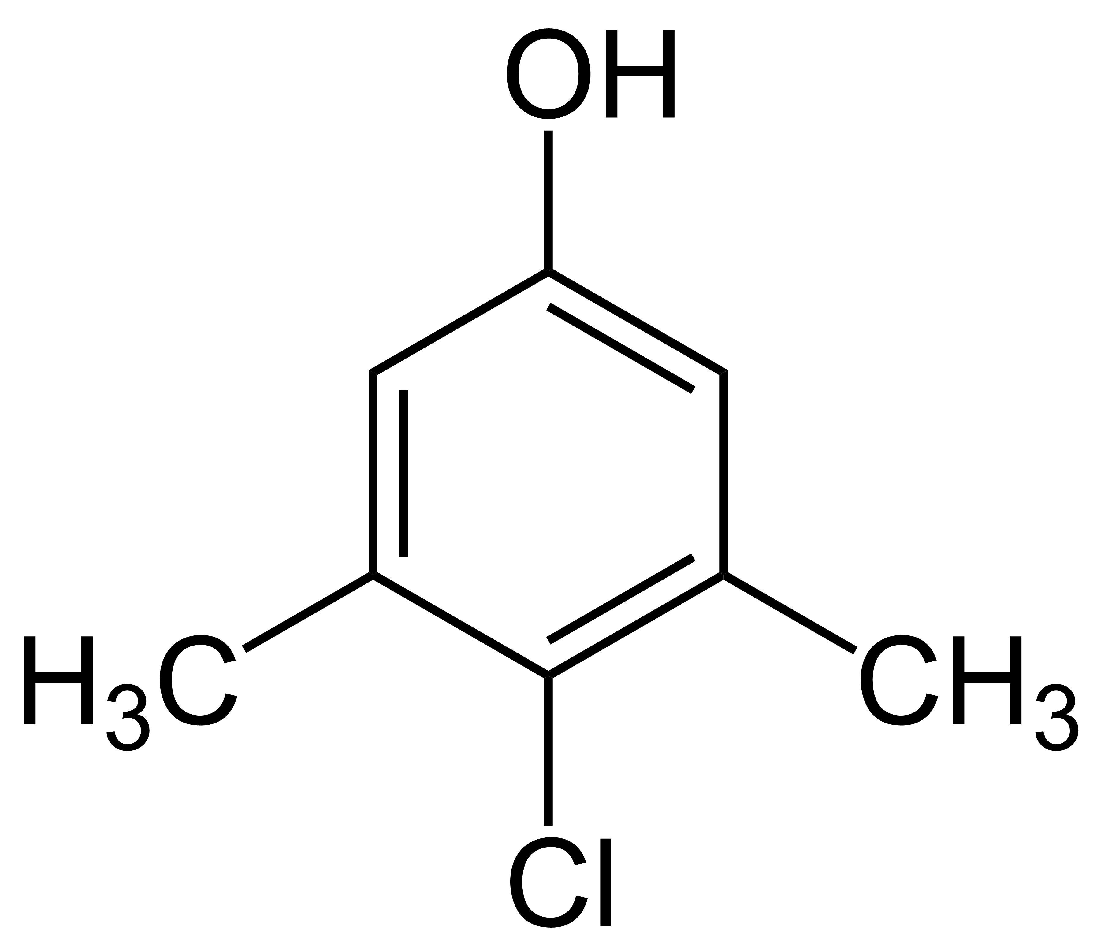 Chemical structure of Chloroxylenol (contained in Dettol)